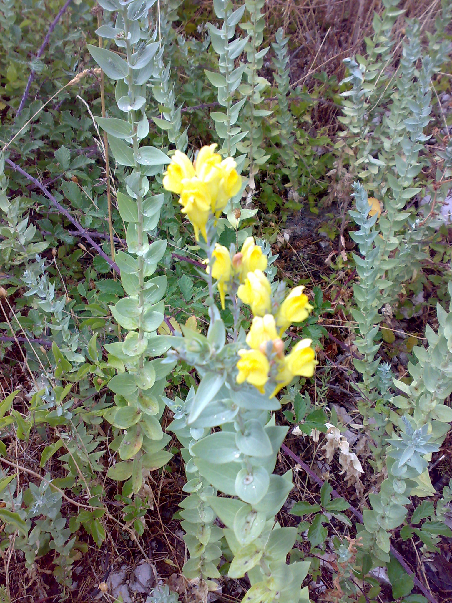 Linaria genistifolia ssp dalmatica, from Negosji village, (Lovcen), Montenegro